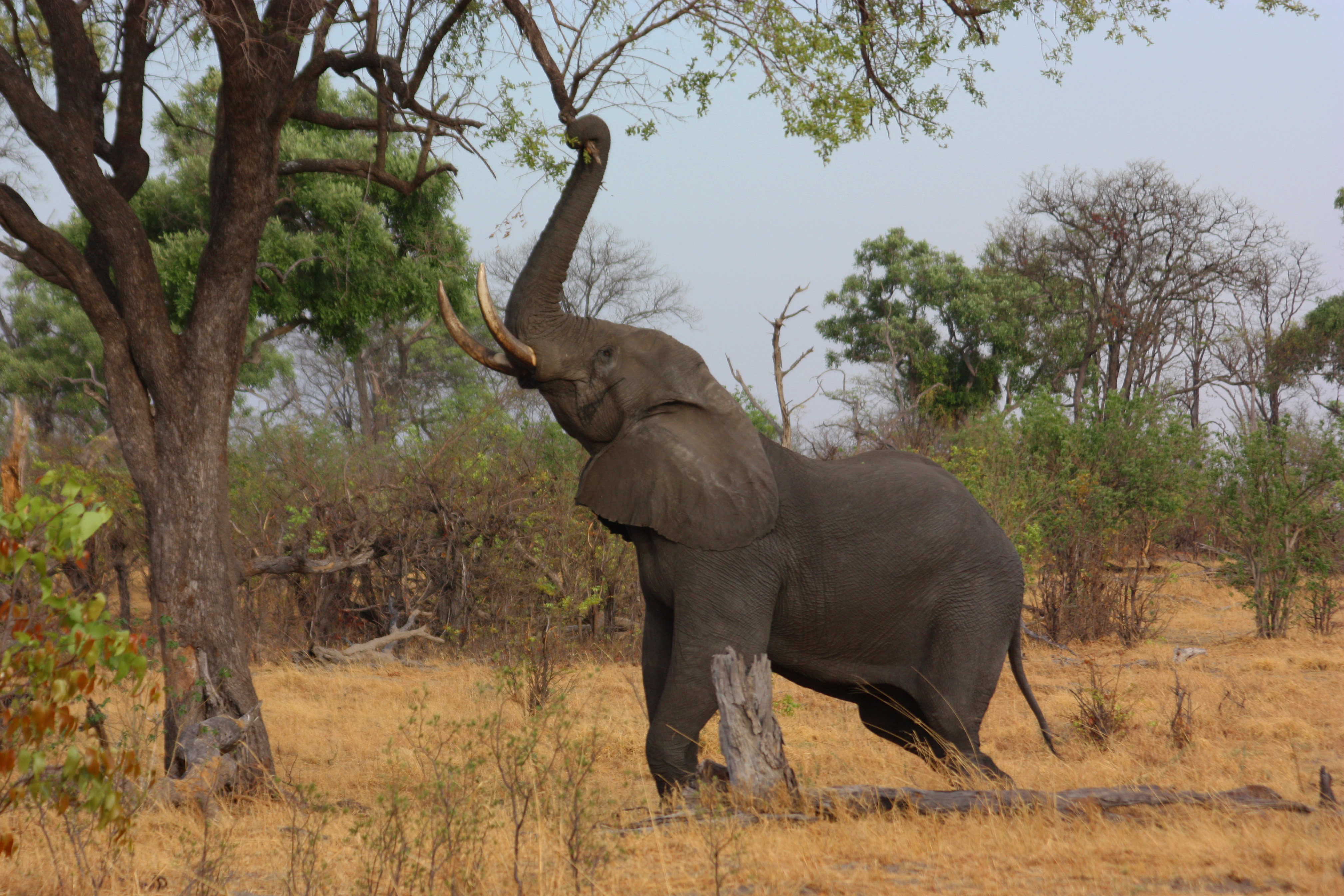 Male elephant (Loxodonta Africana) reaching up to break off a branch for food. Okavango Delta, Botswana. 3 of 3